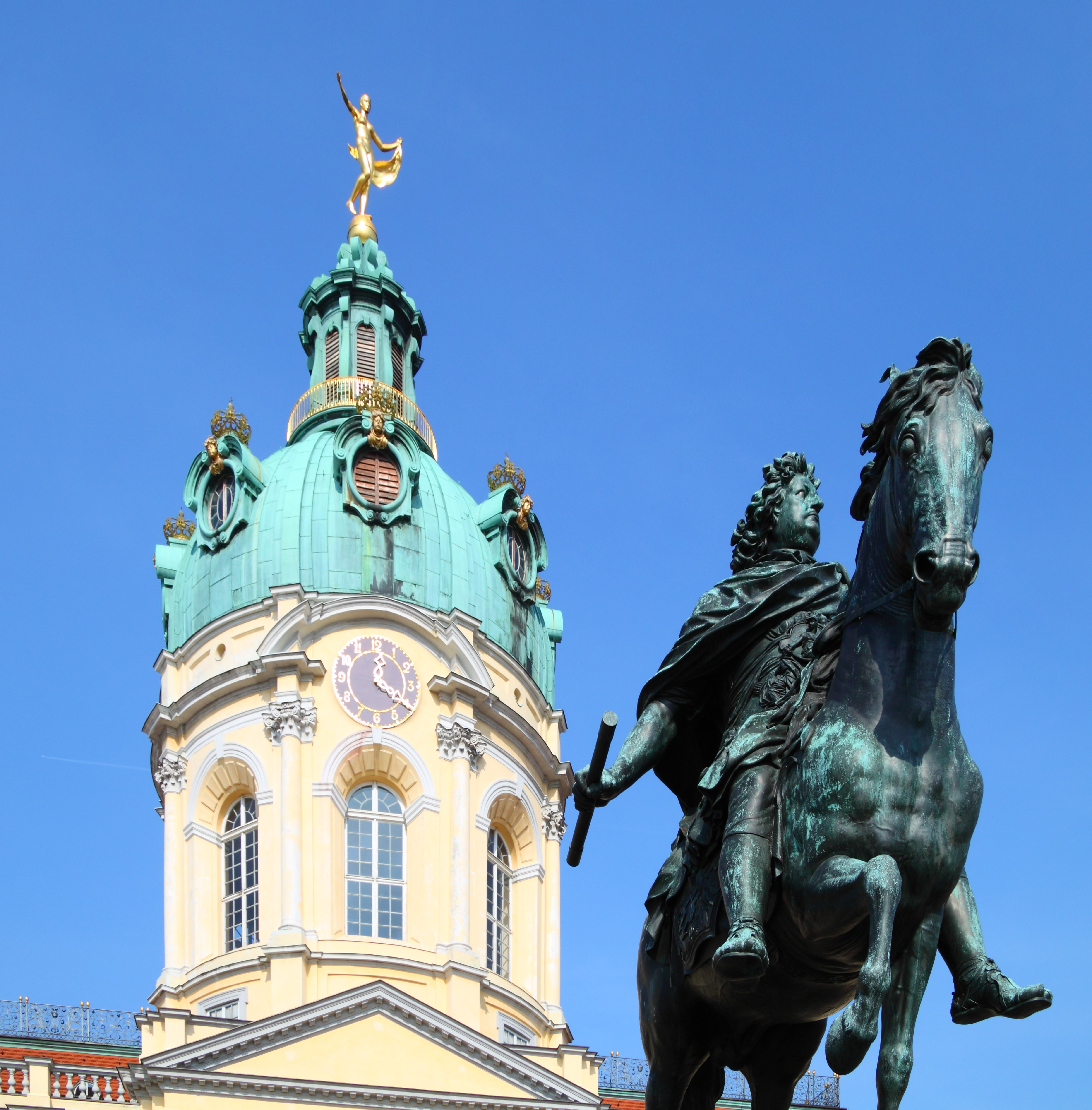 Bronze statue of of Frederick William I, Elector of Brandenburg in the cour d'honneur of Charlottenburg Palace.